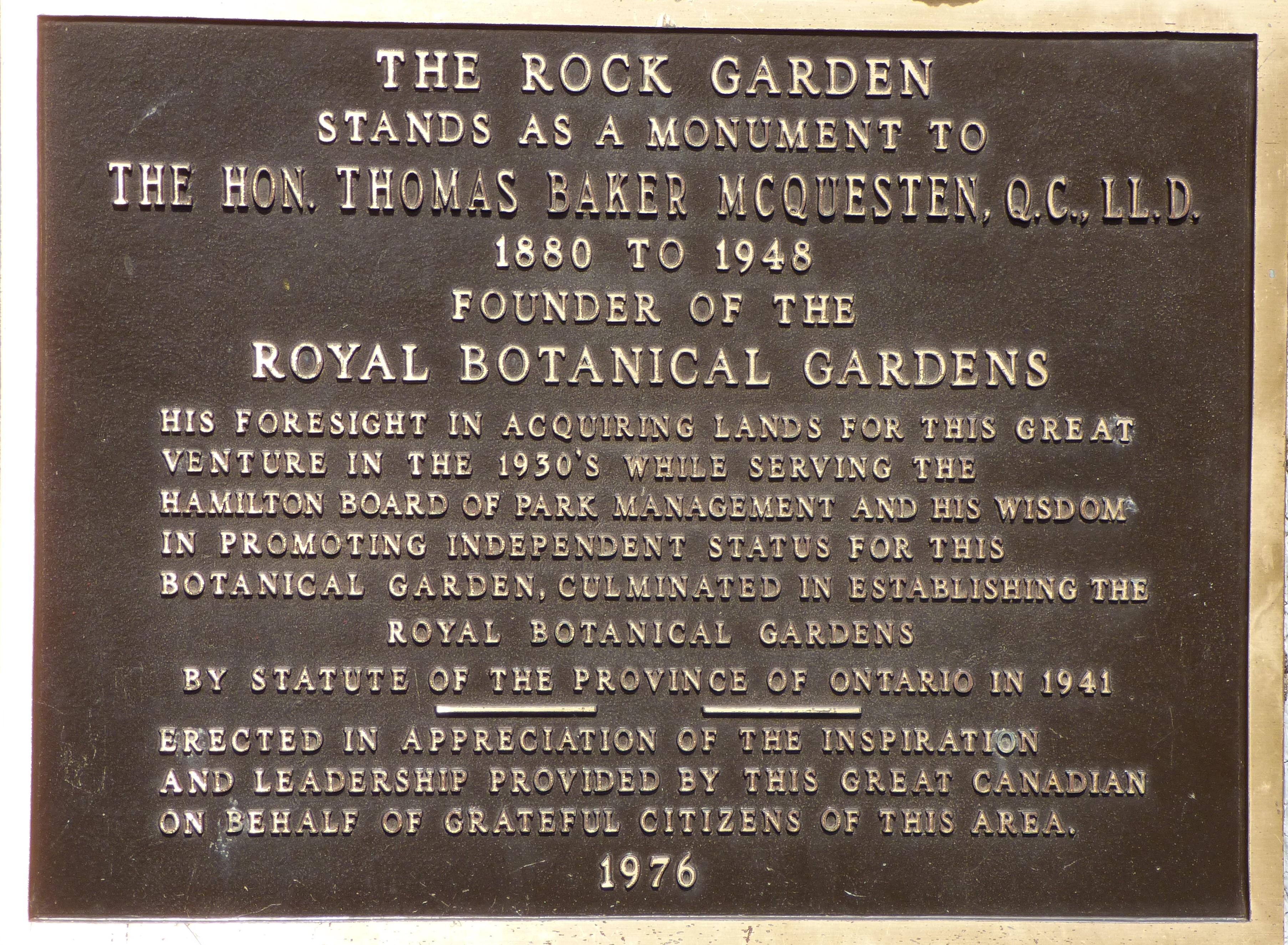 Plaque at the Rock Garden part of the Royal Botanical Gardens in Hamilton, Ontario, Canada.